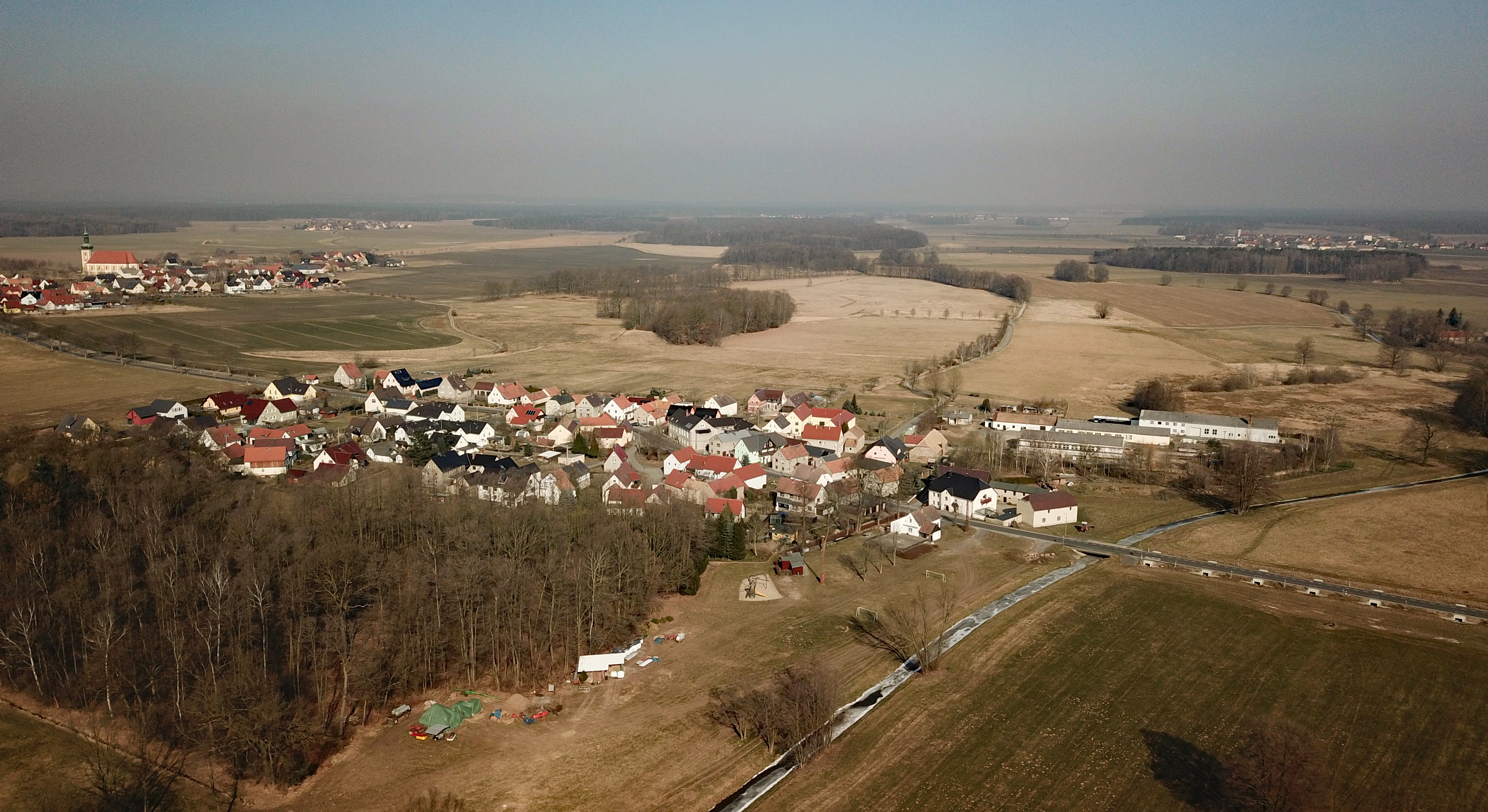 Zerna (Ralbitz-Rosenthal, Saxony, Germany) Hornjoserbsce: Powětrowy wobraz Sernjan